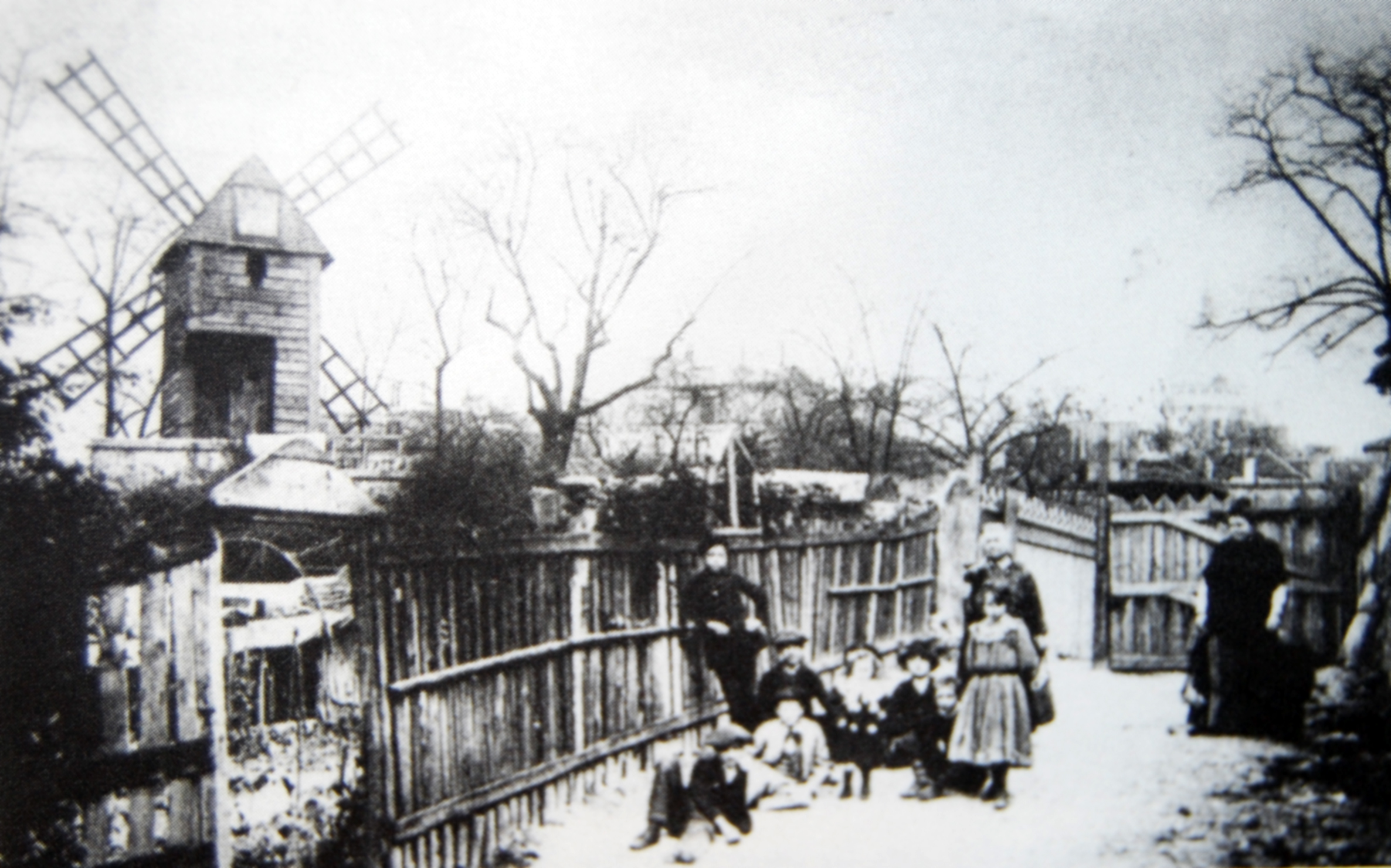 Image from a Postcard of the Maquis at Montmartre, Paris. the first place where Amedeo Modigliani had an atelier in Paris